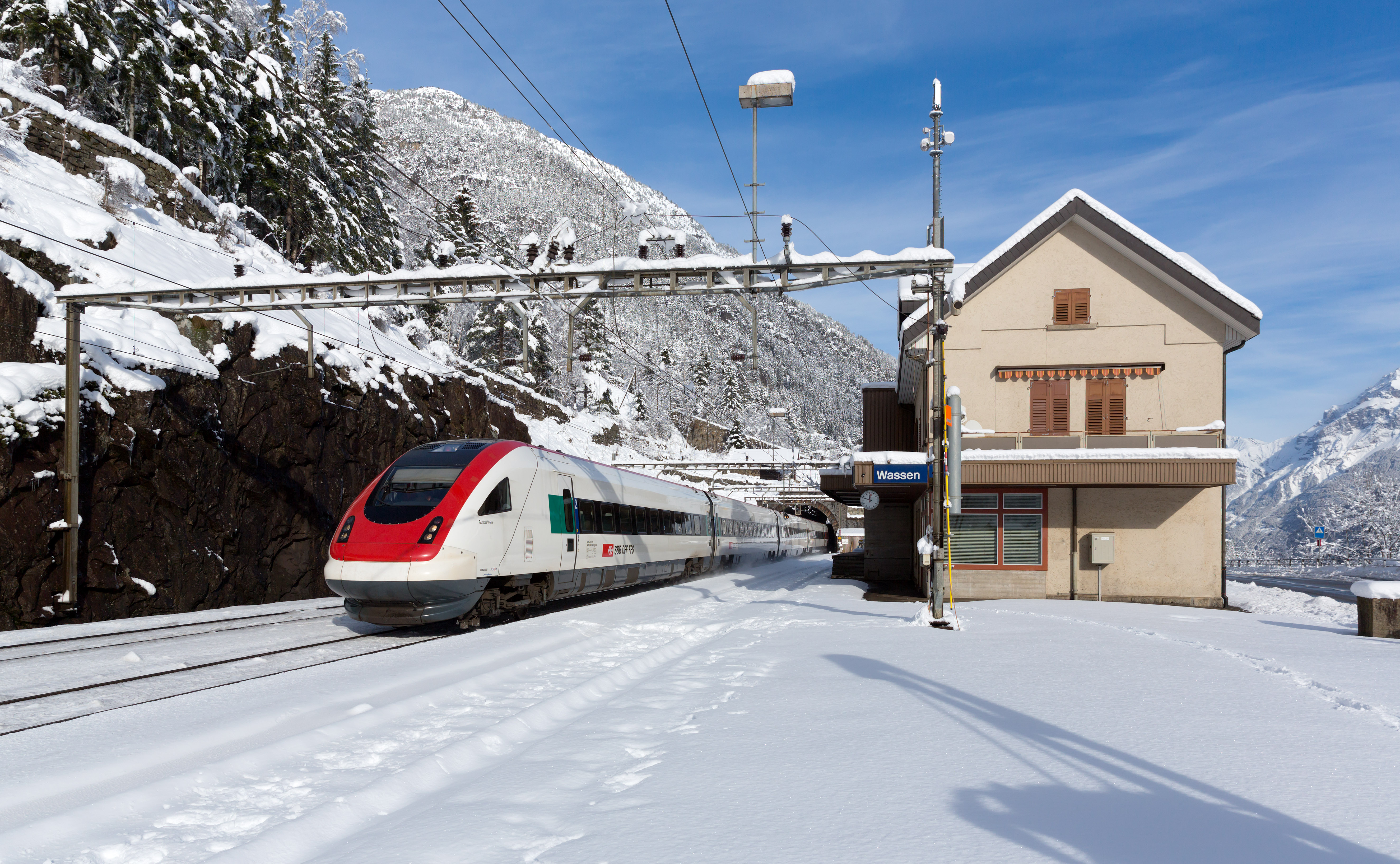 SBB RABDe 500 tilting train from Lugano to Zurich passing through Wassen station, Switzerland.